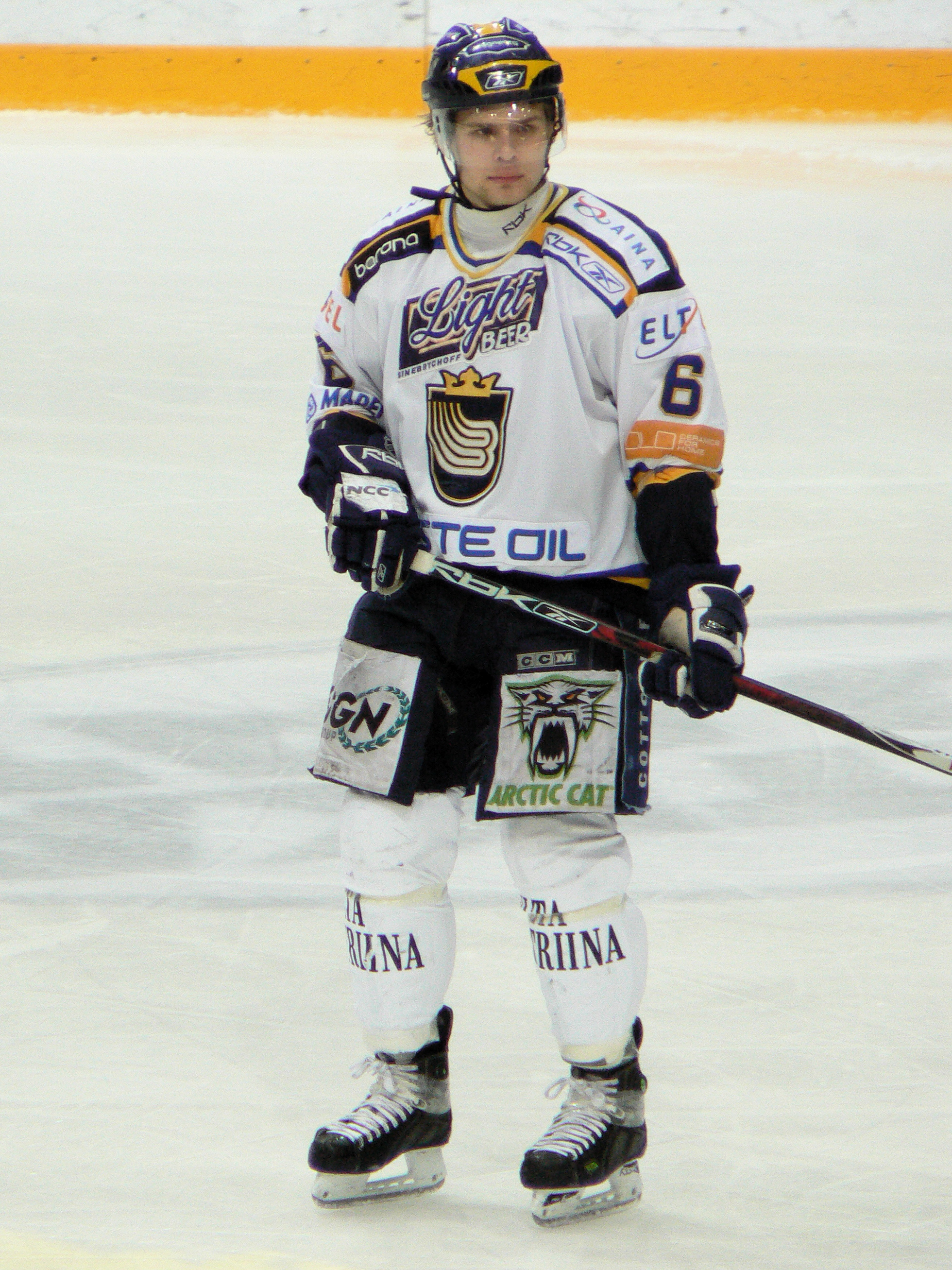 Finnish ice hockey defenseman Mikael Kurki playing for Espoo Blues in February 2008.